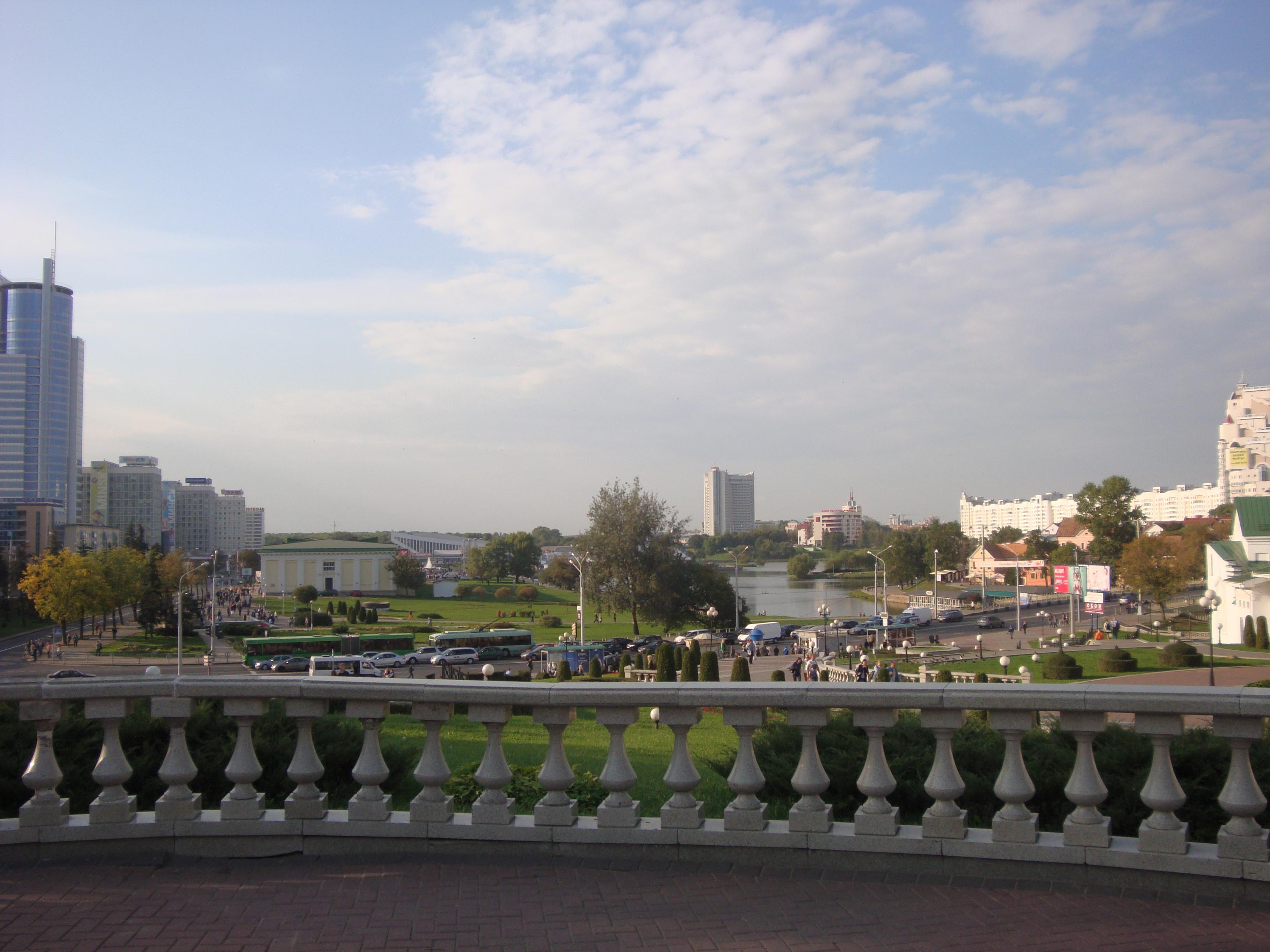 Svisloch river in the center of Minsk city, 2014 AD